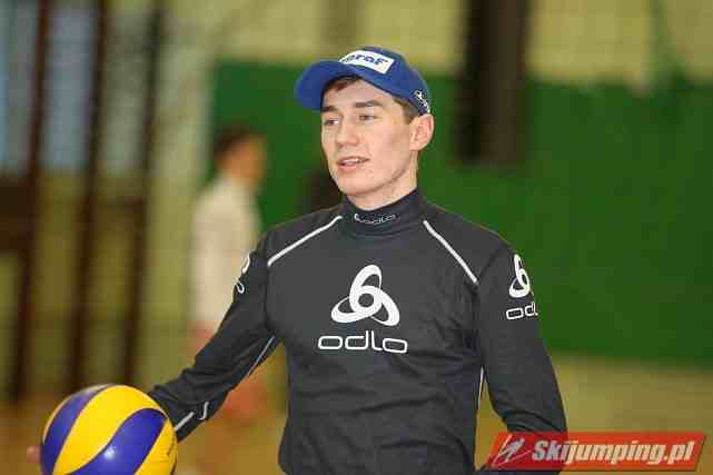 Kamil Stoch during training in Zakopane 2010